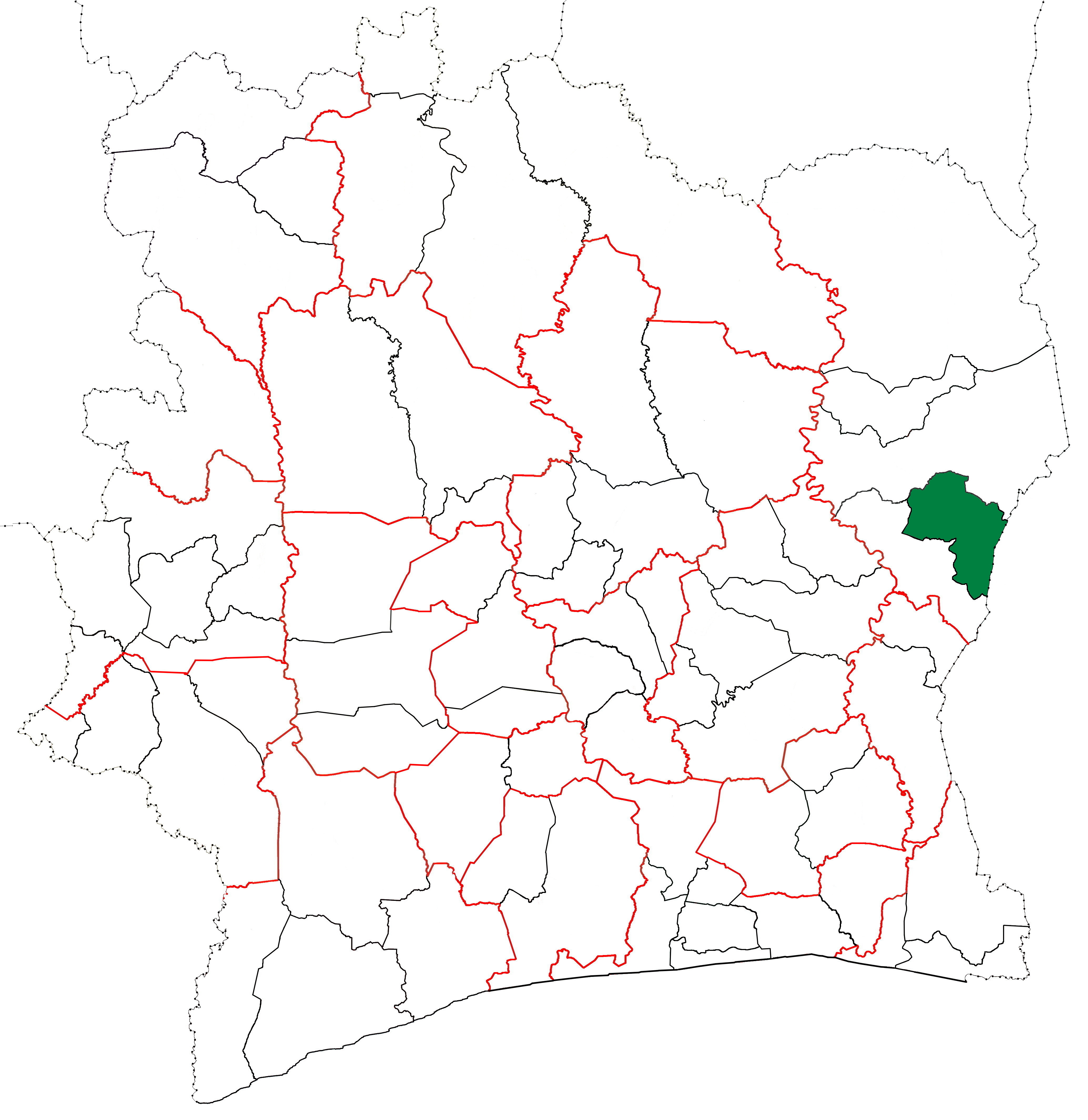 Locator map for Tanda Department in Côte d'Ivoire in 2005. Tanda Department kept these boundaries until 2009, but other subdivision boundaries began to be changed in 2008.